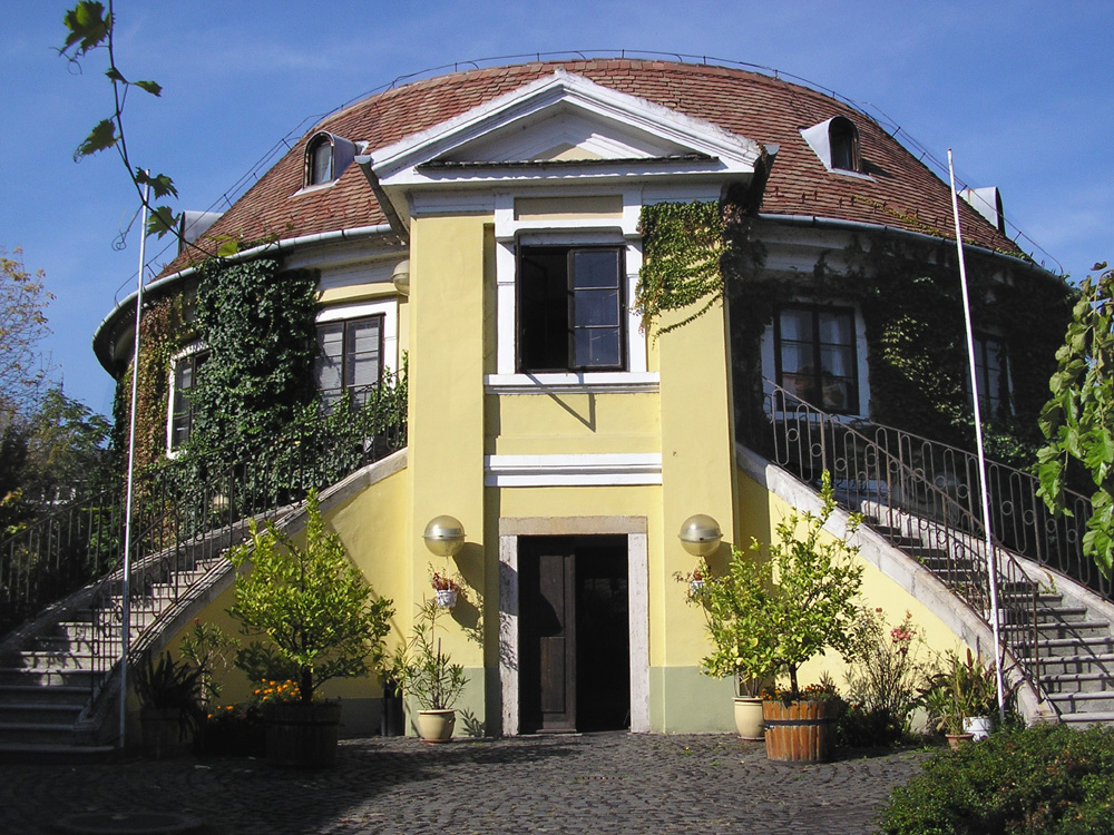 The building of the old Silk manufacture, Budapest, Hungary.